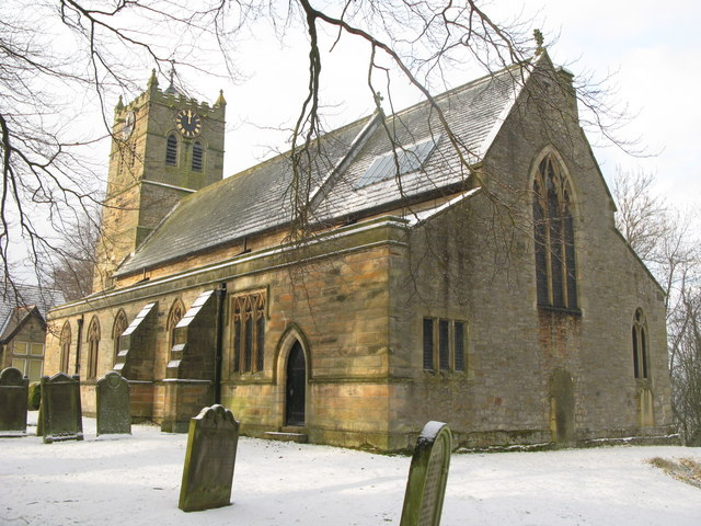 St Cuthbert's parish church, Allendale, Northumberland, seen from the southeast in snow